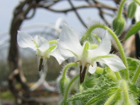 Borago officinalis 'Alba'